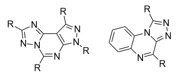 These are two examples of core structures of bicyclic non xanthine based A2A adenosine antagonists. There can be different numbers of N in the core cycles and R can be, for example: S, O, NR, NH2 and more. The pentagon can also be in the middle of two hexagons.